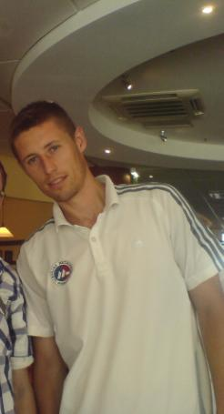 In Warsaw before match against Legia in European League 2012.